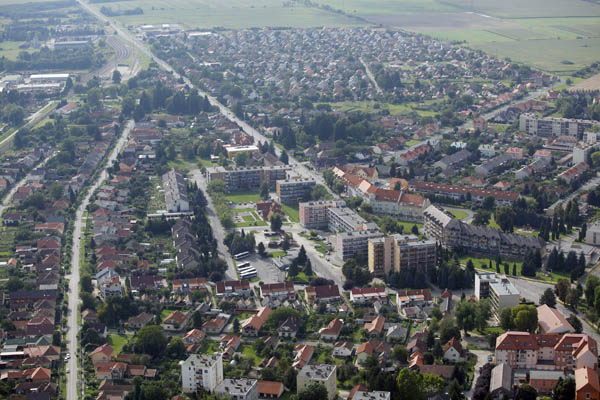 Lenti, Hungary, aerial photography